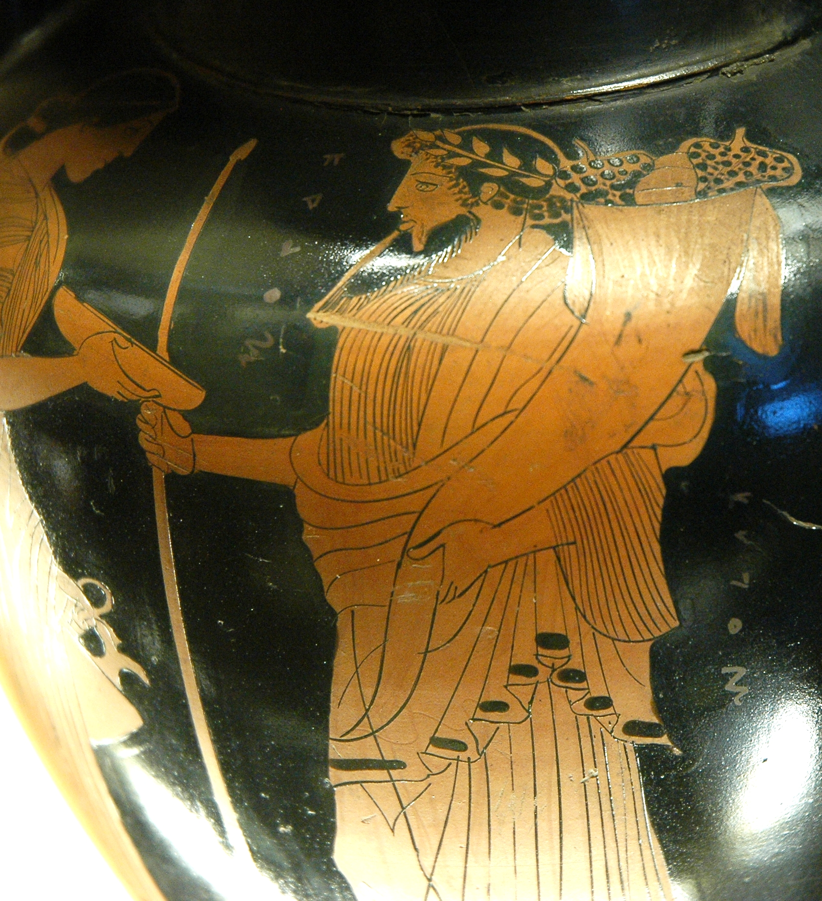 Hades (on the right) and Persephone (on the left). Detail from an Attic red-figure amphora, ca. 470 BC, from Italy.